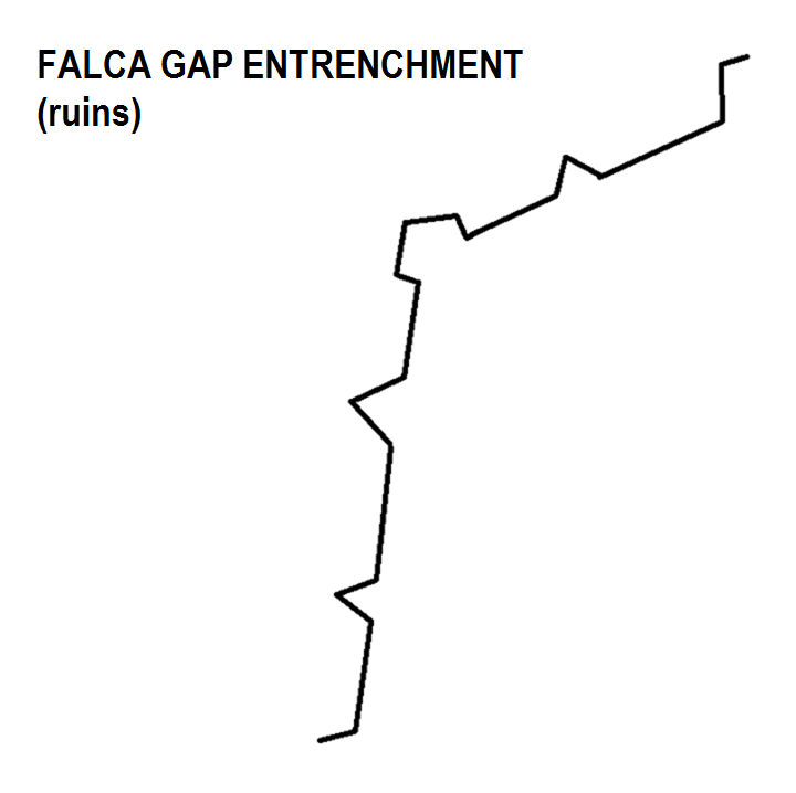 Map of the Falca Gap Entrenchment on the boundary between Mġarr and St. Paul's Bay, Malta